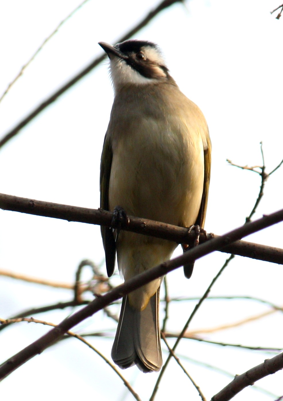 Light-vented Bulbul in Shanghai